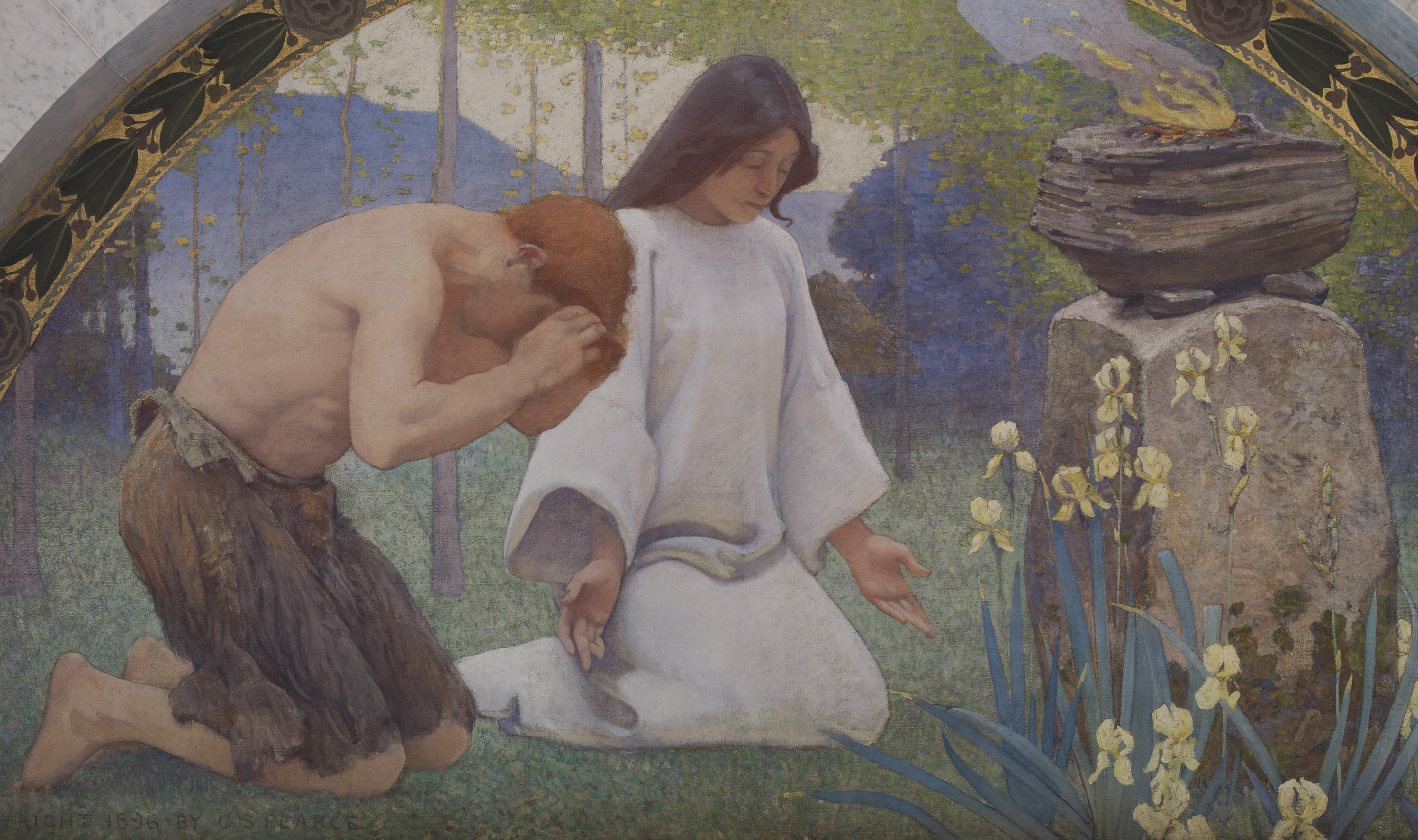 Detail of Religion mural in lunette from the Family and Education series by Charles Sprague Pearce. North Corridor, Great Hall, Library of Congress Thomas Jefferson Building, Washington, D.C. Mural contains artist's logo and "COPYRIGHT 1896 BY C.S.PEARCE".